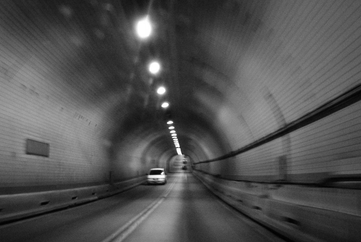 Washburn Tunnel on the NRHP since April 16, 2008. Address 3198 Washburn Tunnel. Connects Pasadena and Galena Park, Texas by going under the Houston Ship Channel. IN Harris County, TX. Posted to Flickr by Accent on Electric (Patrick Feller) under the title "Washburn Tunnel under Houston Ship Channel 0627091405BW, Through a dirty windshield"